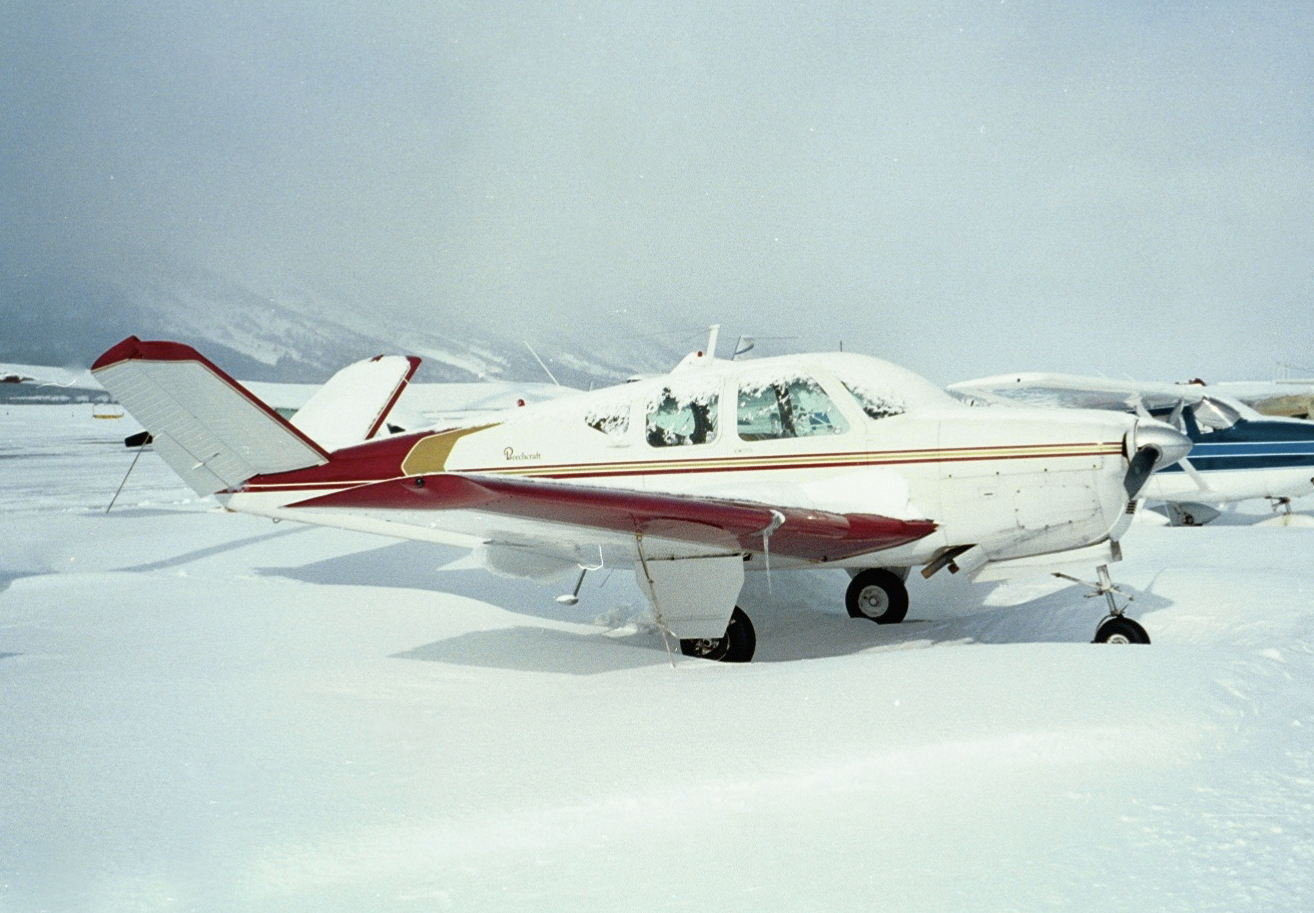 Christopher Conway Gettings, taken January 1999, Jackson Hole, Wyoming, USA